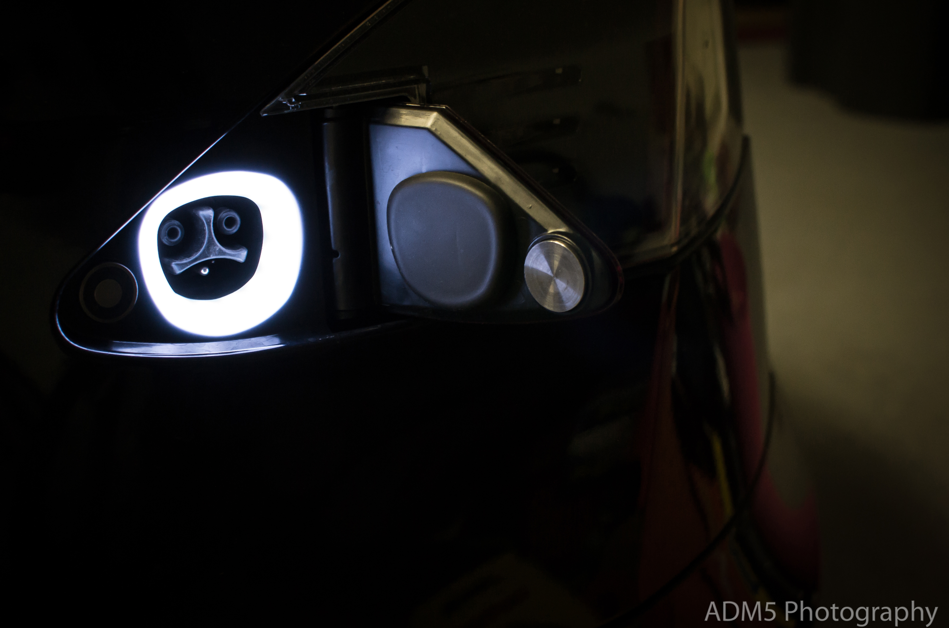 Tesla charging port-1